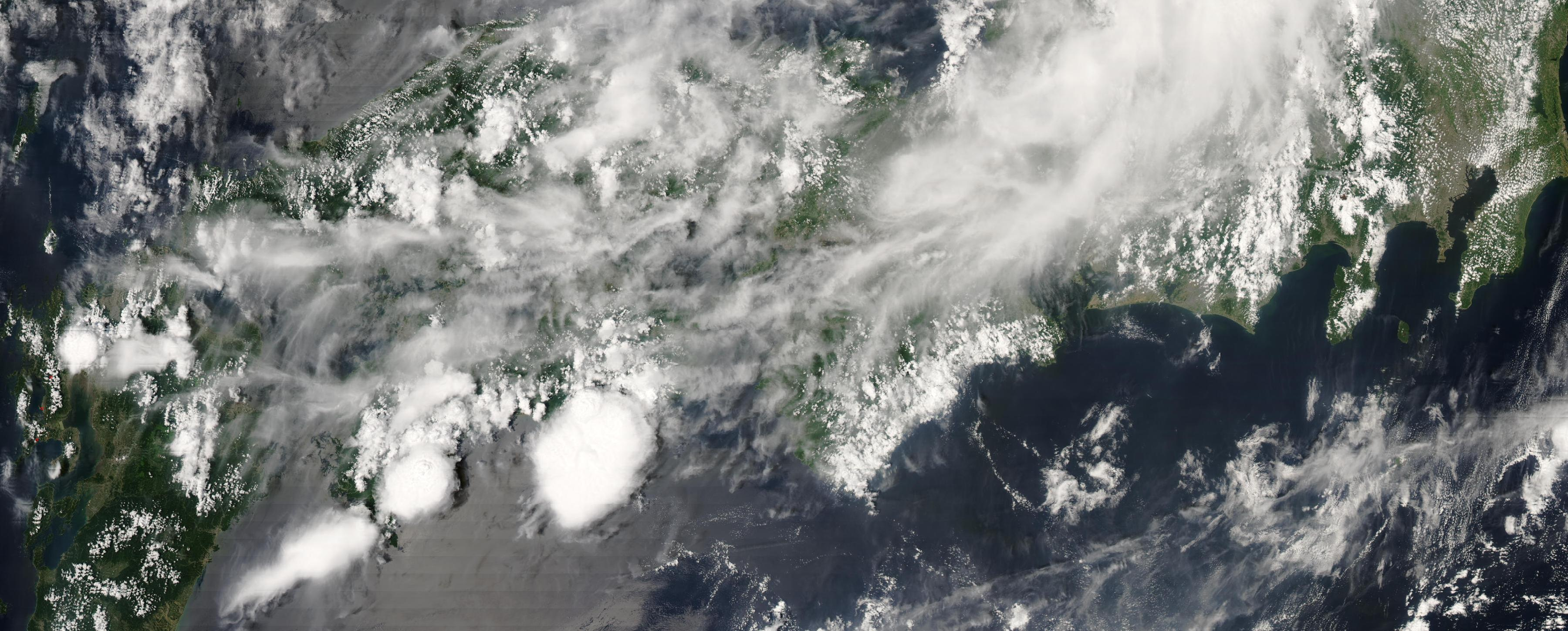 Aqua/MODIS satellite image of Japan(South Honshu, Shikoku, Kyushu). These are cumulonimbus clouds of Yudachi(夕立, evening thunderstorm).